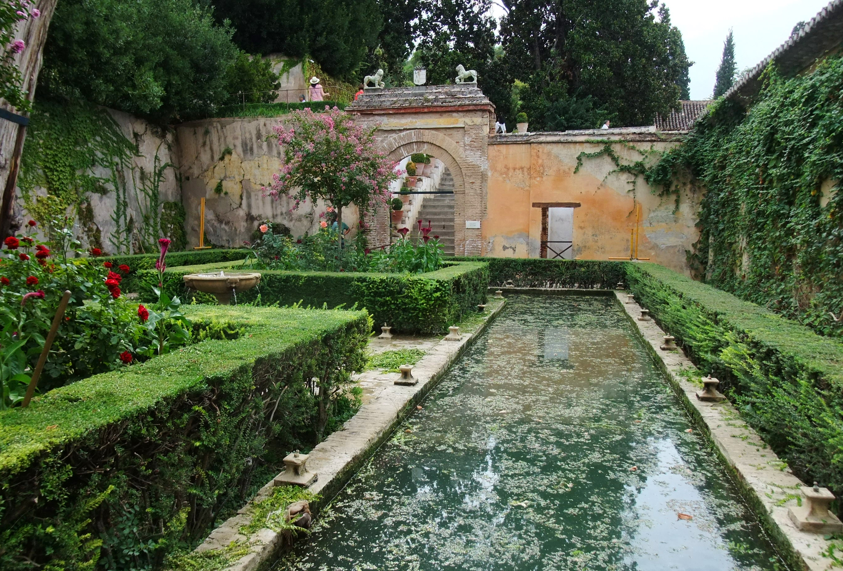 Garden of Generalife, summer palace of the Sultan of Granada in Spain